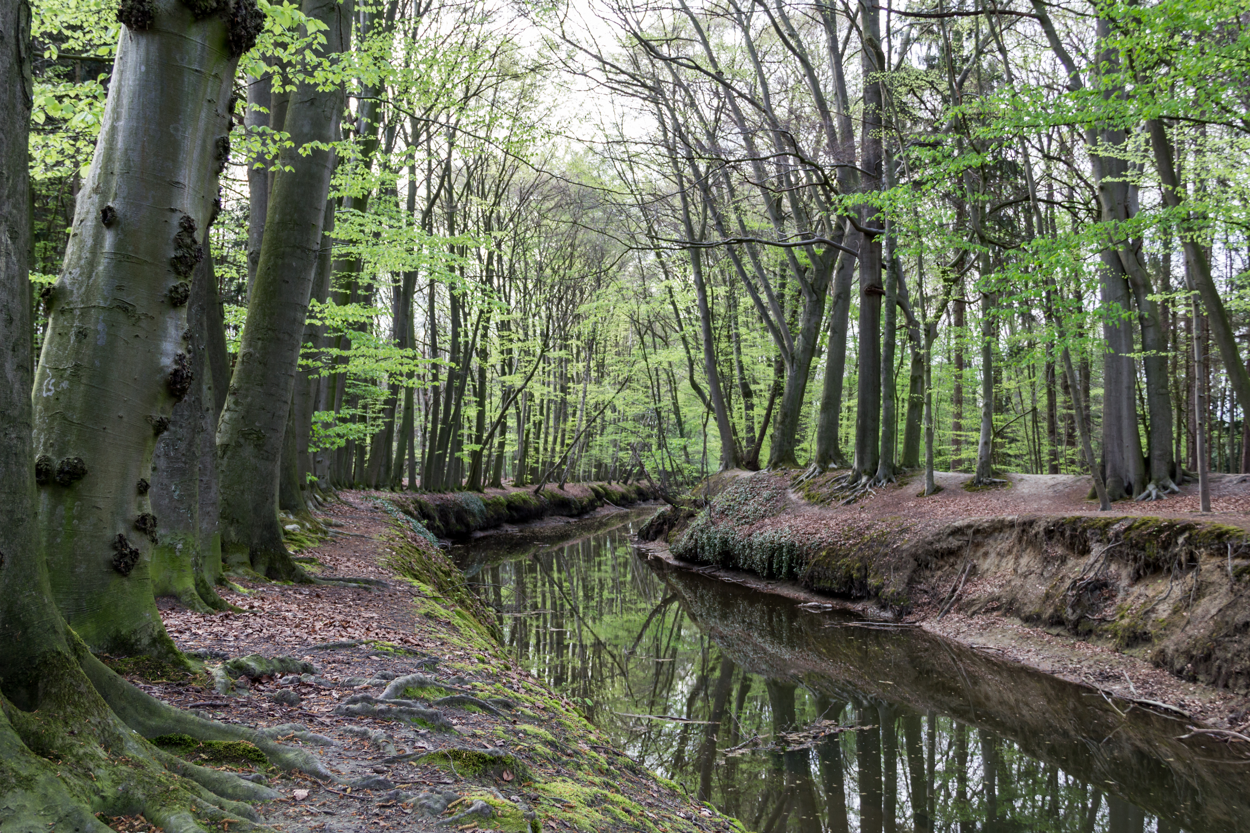 Angel (river) in the Wolbecker Tiergarten in Wolbeck, Münster, North Rhine-Westphalia, Germany